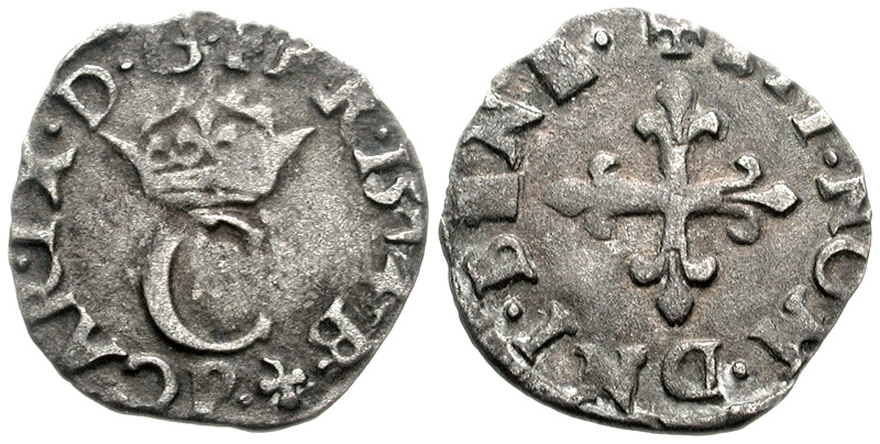 France, Royal. Charles IX de France. 1560-1574. BI Liard au C (15mm, 0.89 g, 2h). Dijon mint. Dated 1574. CAR • IX • D • G • FR • R, crowned C + SIT • NOM • DNI • BENE, cross flourée. Duplessy 1091a; Ciani 1388. VF, toned. Well struck example.